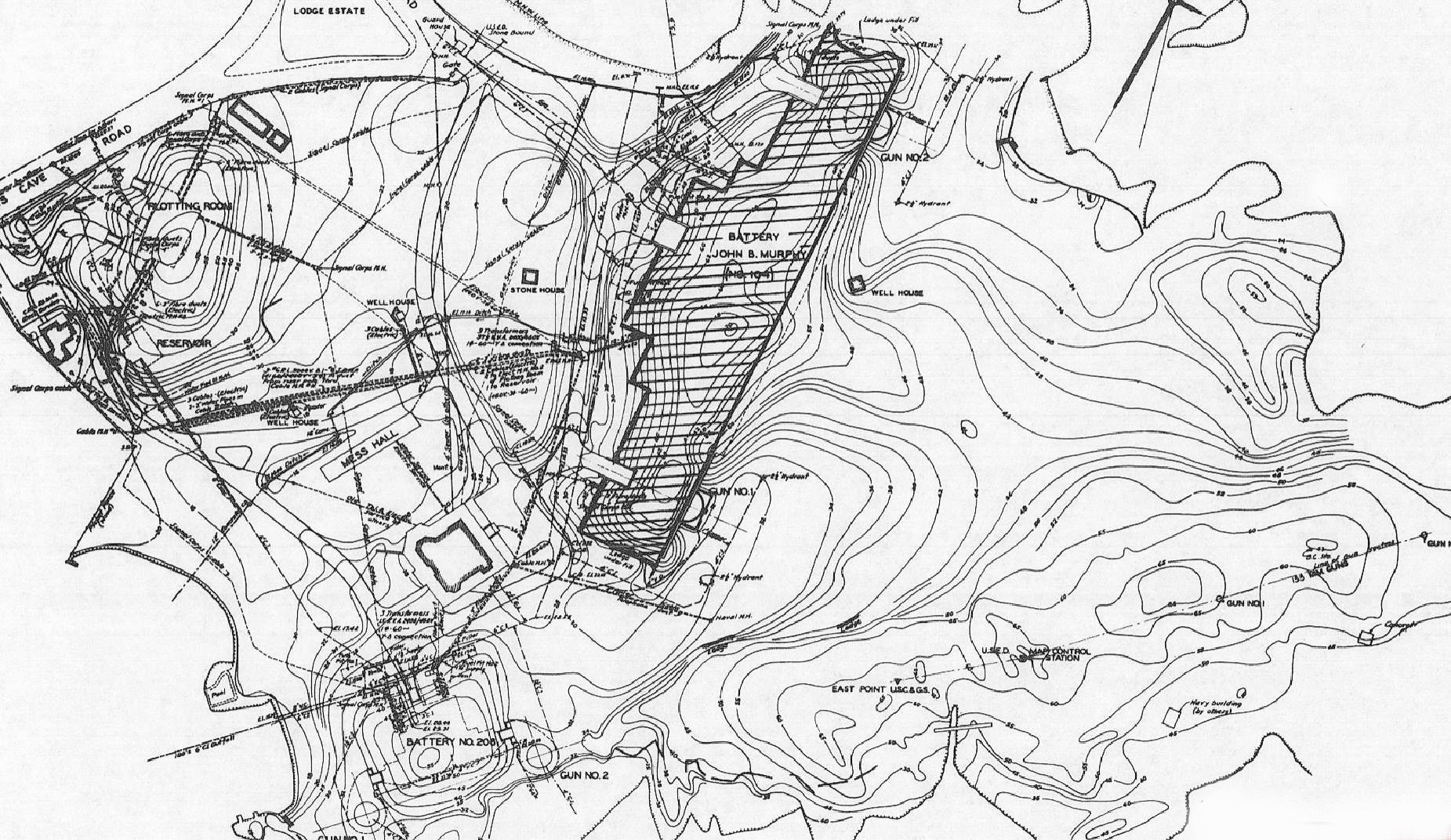 This 1945 map showing the East Point gun emplacements is from the U.S. Army Engineers' Report of Completed Works. The southern shaft of the compass rose arrow is at upper right.